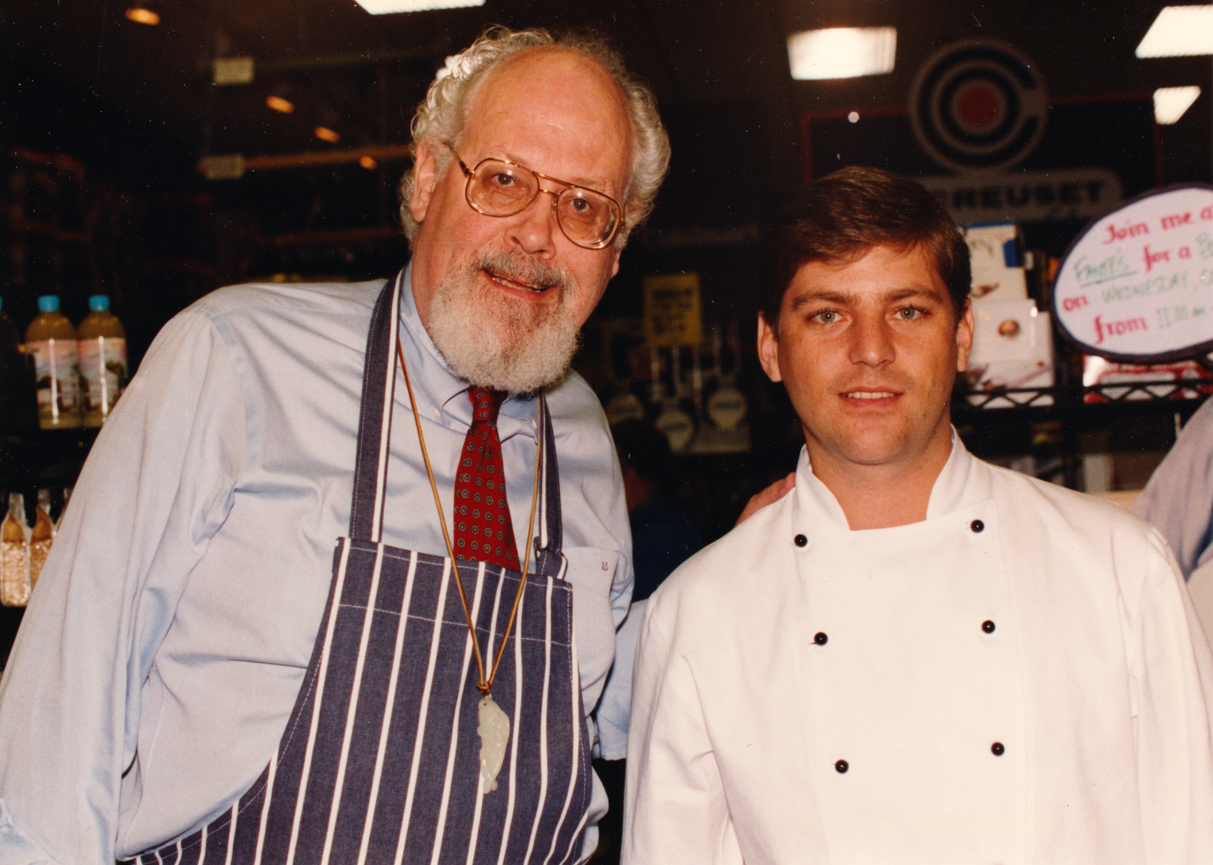 Jeff Smith, The Frugal Gourmet, with Chef Craig Wollam, at Fante's Kitchen Shop (1992)